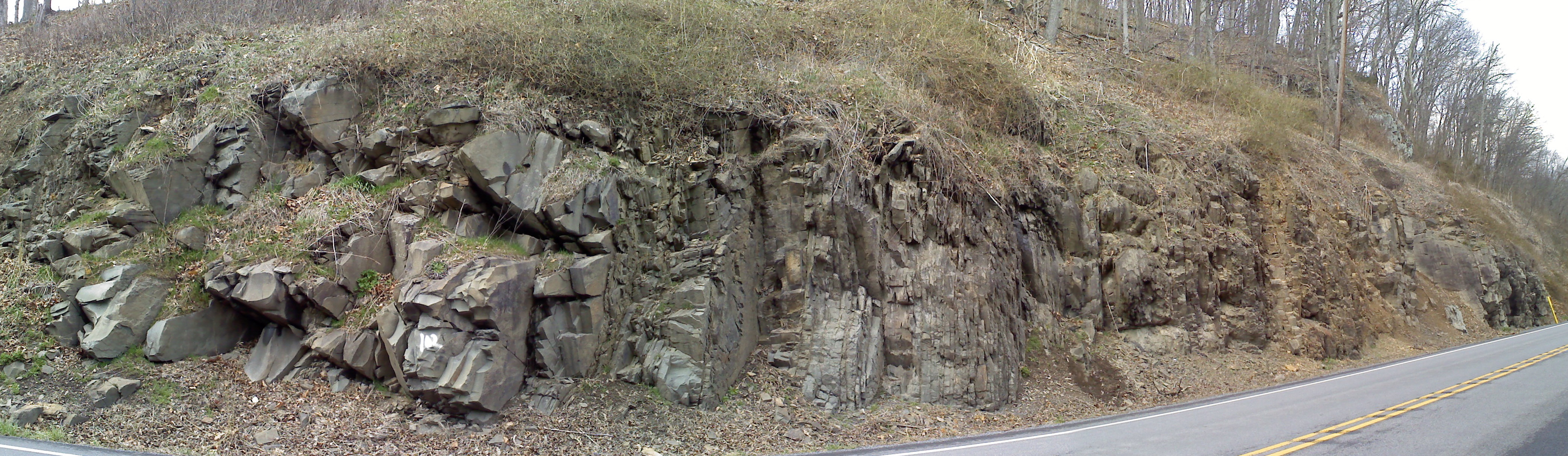 Outcrop of Mahantango Formation along U.S. Route 522, Fulton County. (39°51'27.54"N, 78°02'31.10"W)